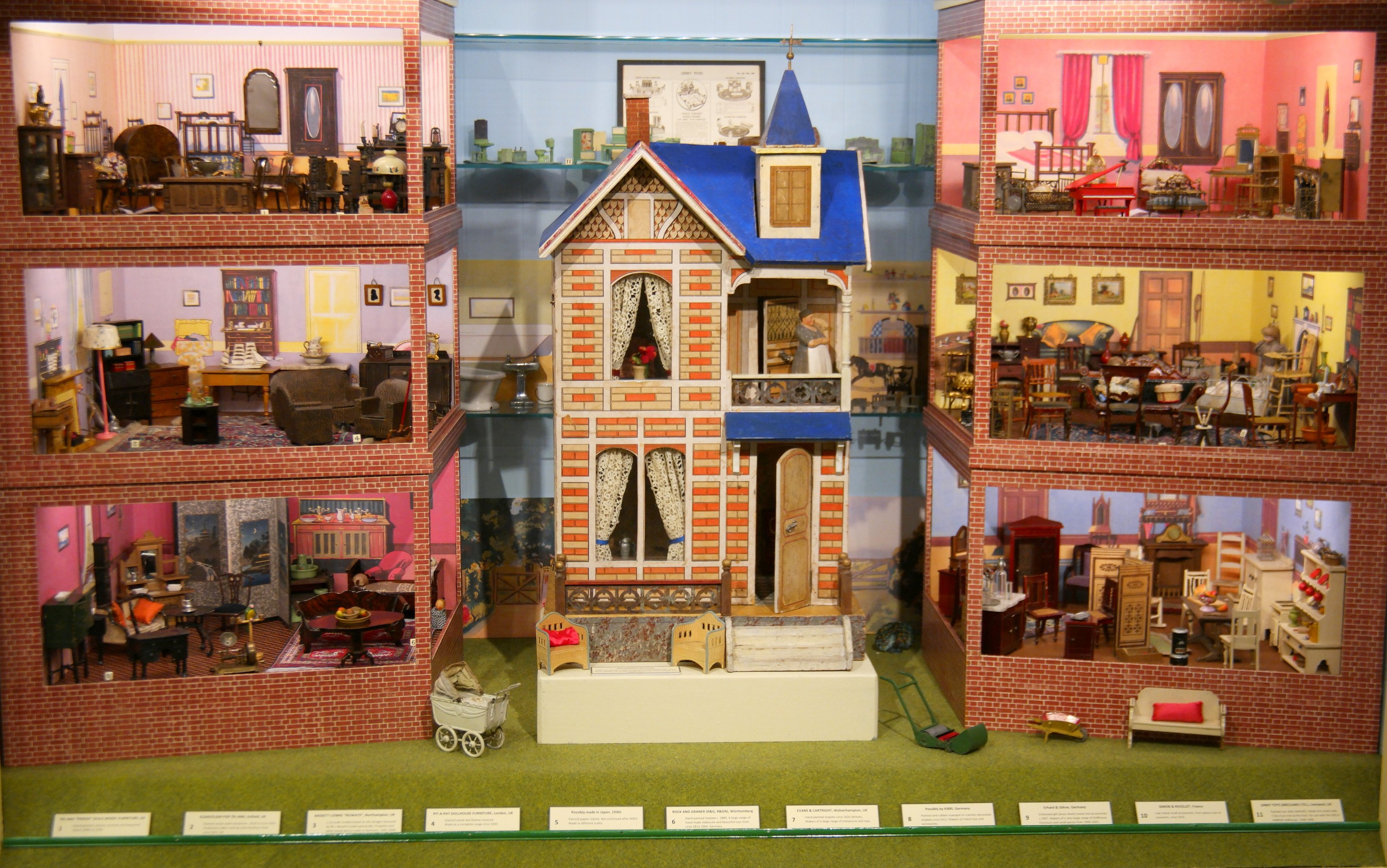 Dollhouse by Moritz Gottschalk of Germany. Part of a display of dollhouse furniture and miniatures at Brighton Toy and Model Museum, 2016